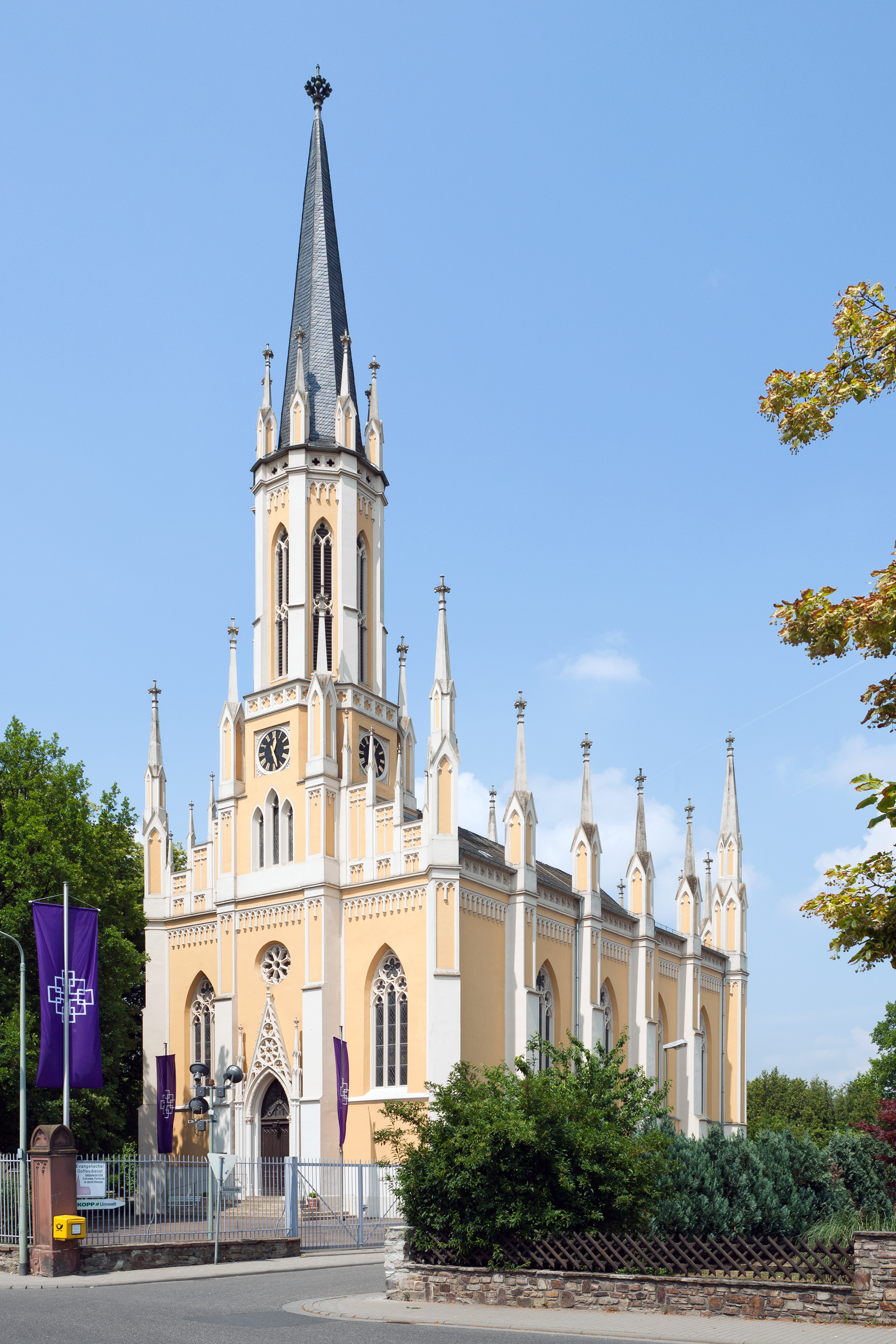 Eltville-Erbach: Johanneskirche (St. John's Church) as seen from the southeast